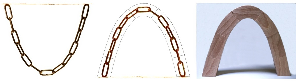 Wooden construction kit simulates a stone arch whose shape is derived from the pendant chain. Constituent structural elements are under compression load without any moments of bending.